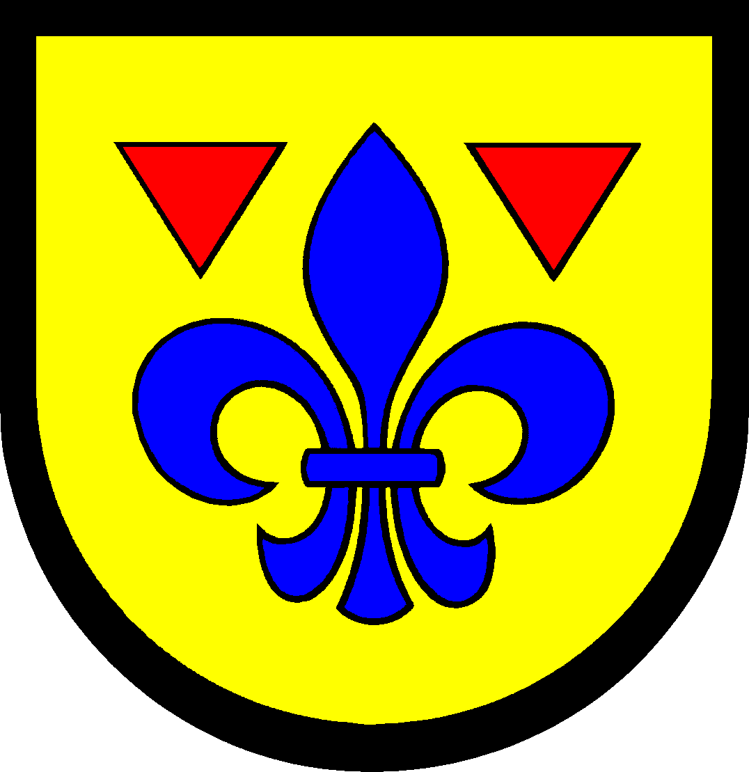 Coat of arms of the municipalitie Gülzow in Schleswig-Holstein, Germany.